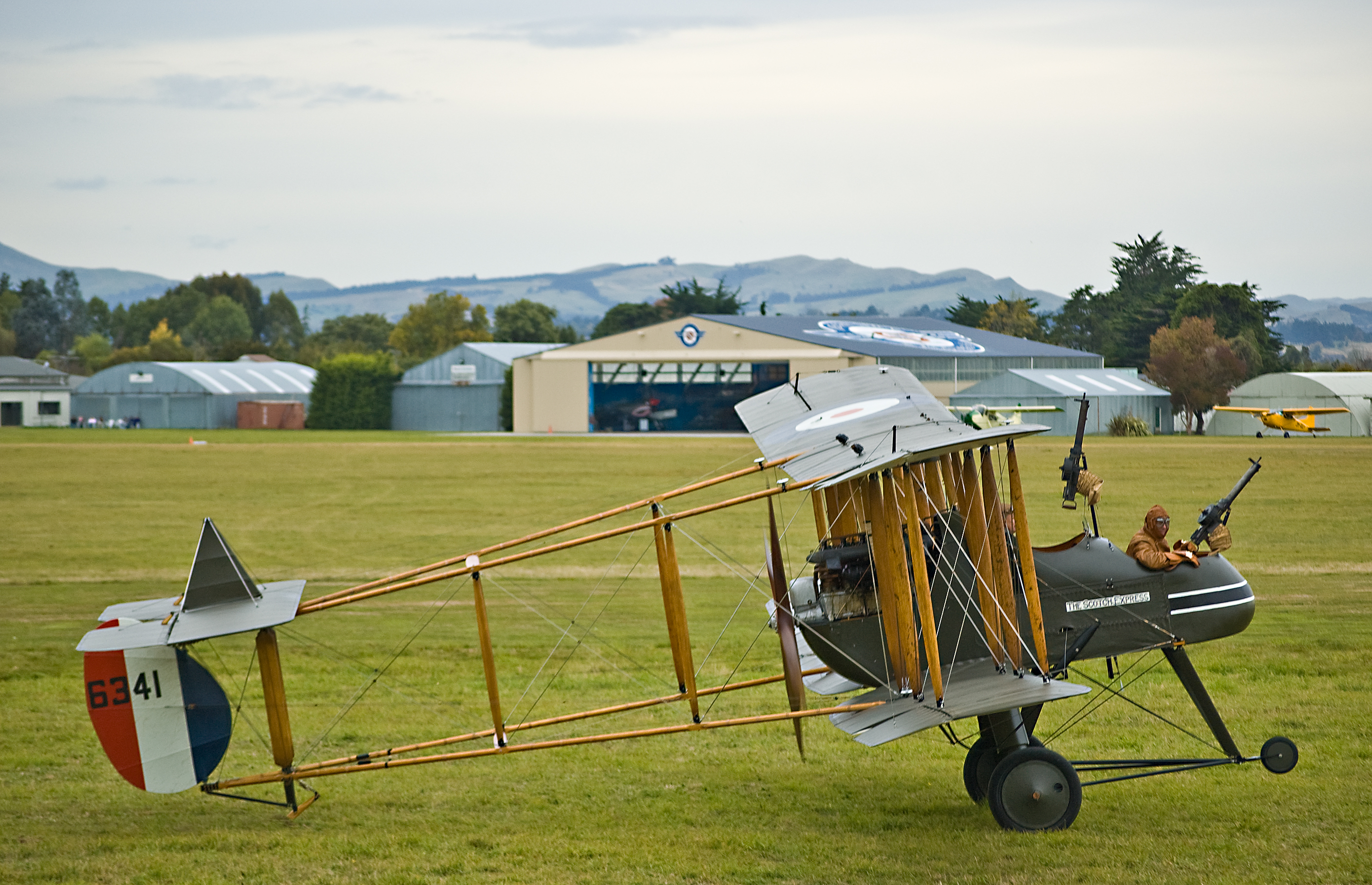 The world's only airworthy example on its first public outing. Built from a mix of original components (notably the engine and prop) and modern replicas using authentic materials and the original plans.